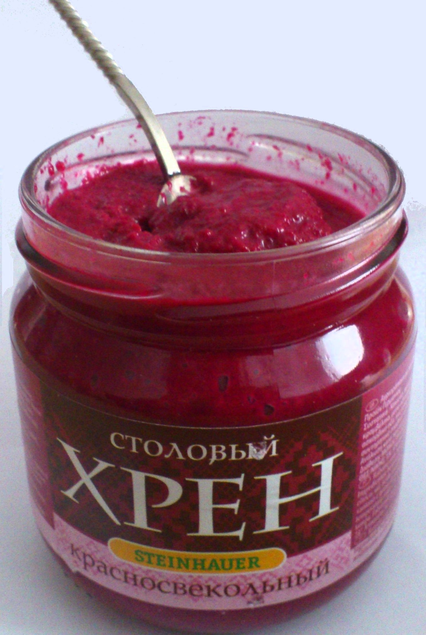 Horseradish with red beet (chrain)